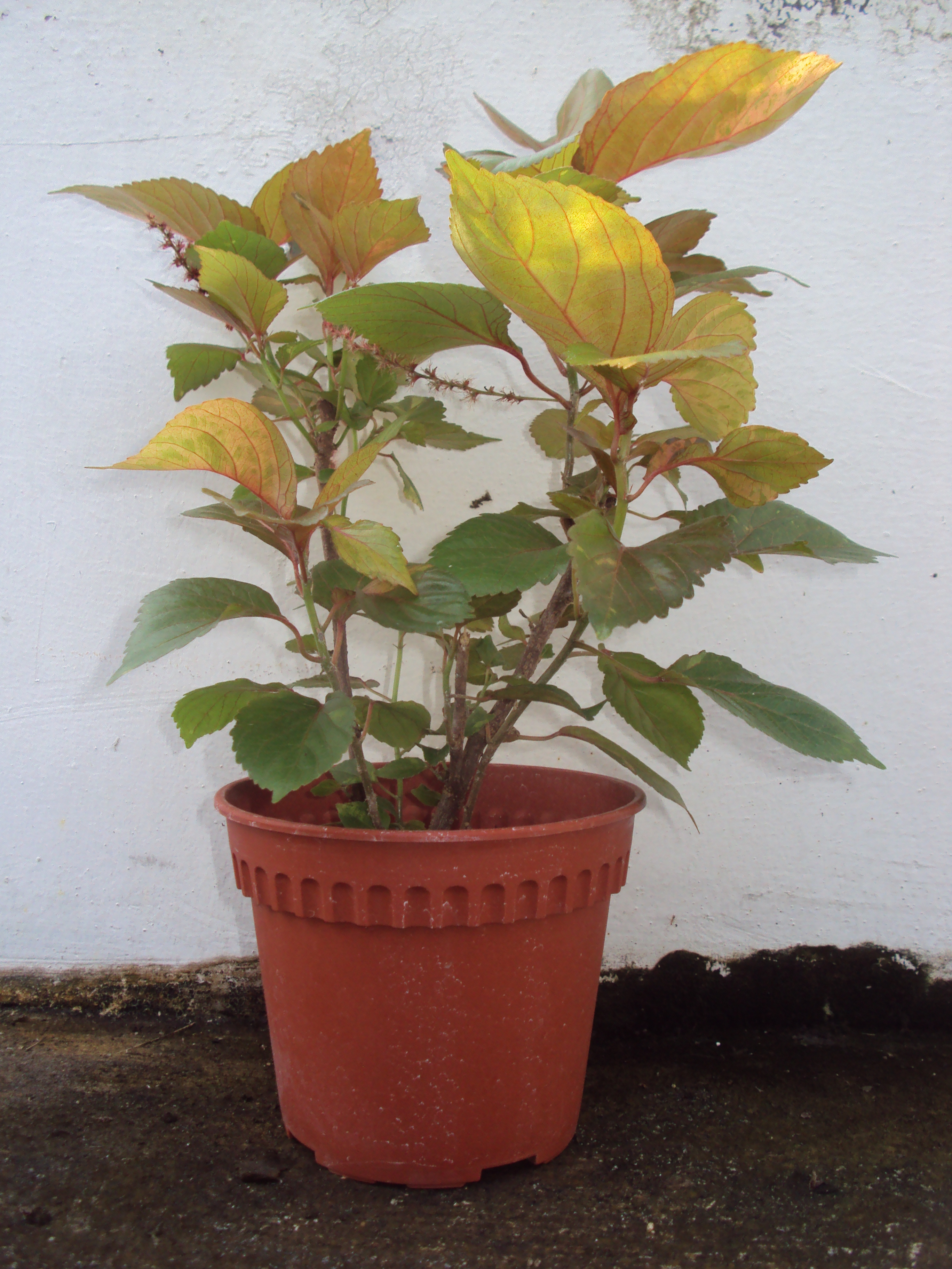 This picture was taken at The University of Nottingham, Malaysia campus